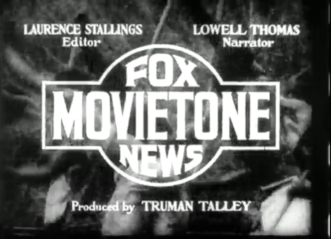 Still image of the title card from Fox Movietone News, 1935.